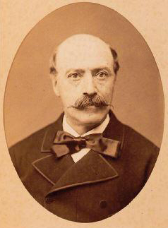 French cellist Léon Jean Jacquard (1826-1886)